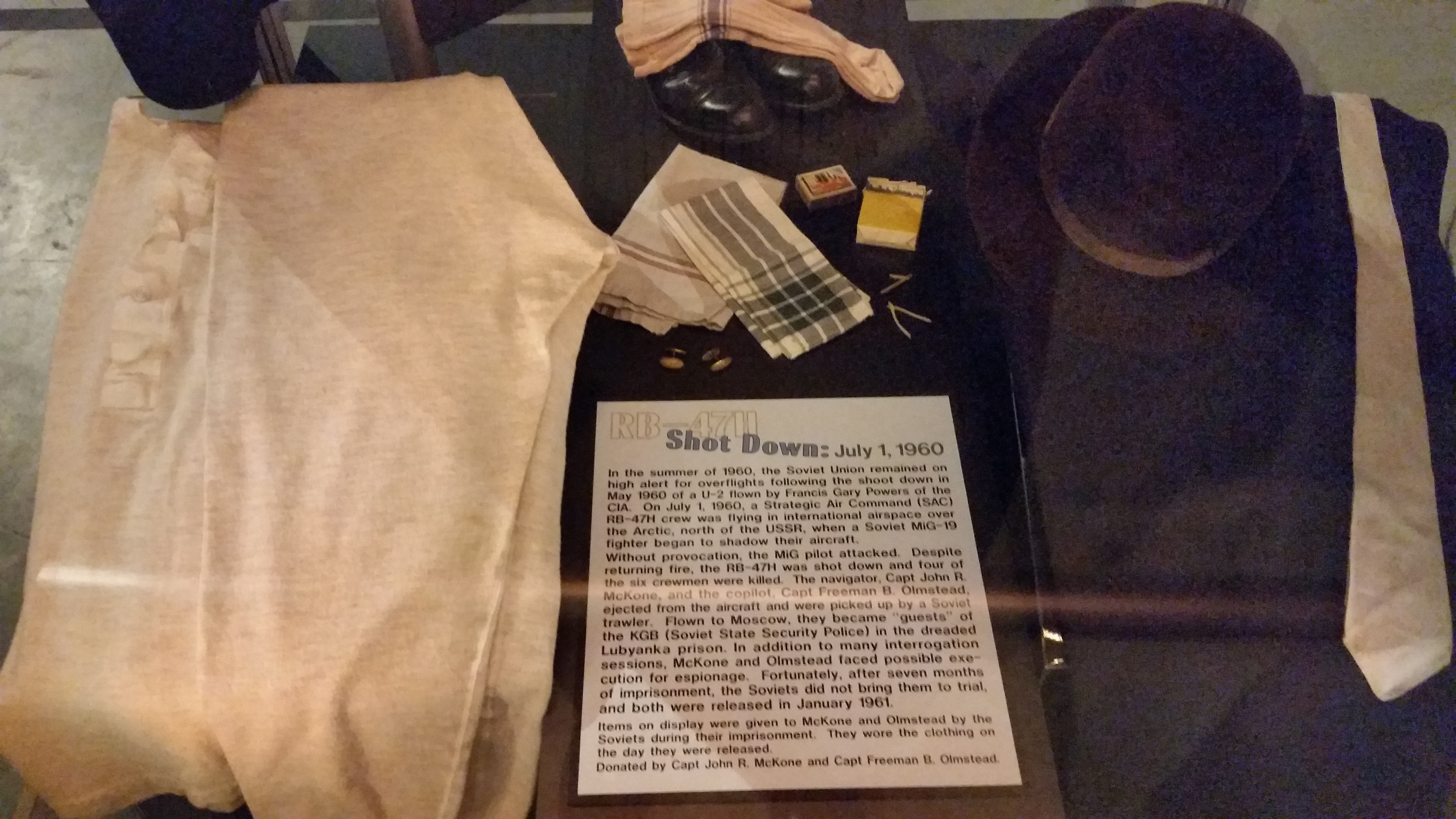 National Museum of the United States Air Force display of McKone and Olmstead artifacts